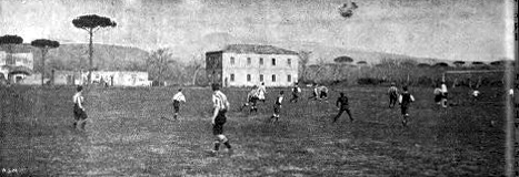 Friendly Naples-Cedric played in 1906.